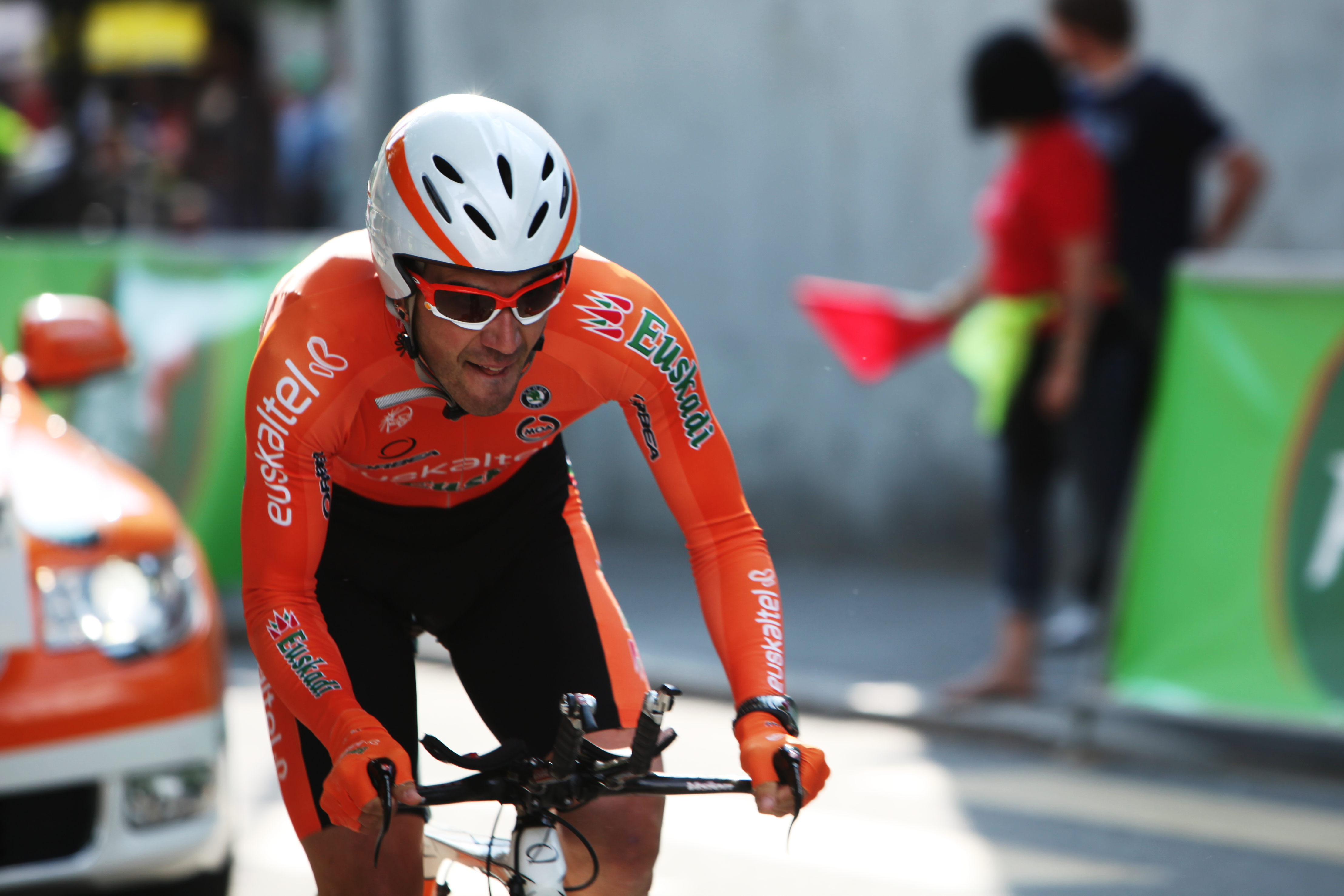 Ivan Velasco at the prologue of the Tour de Romandie 2011